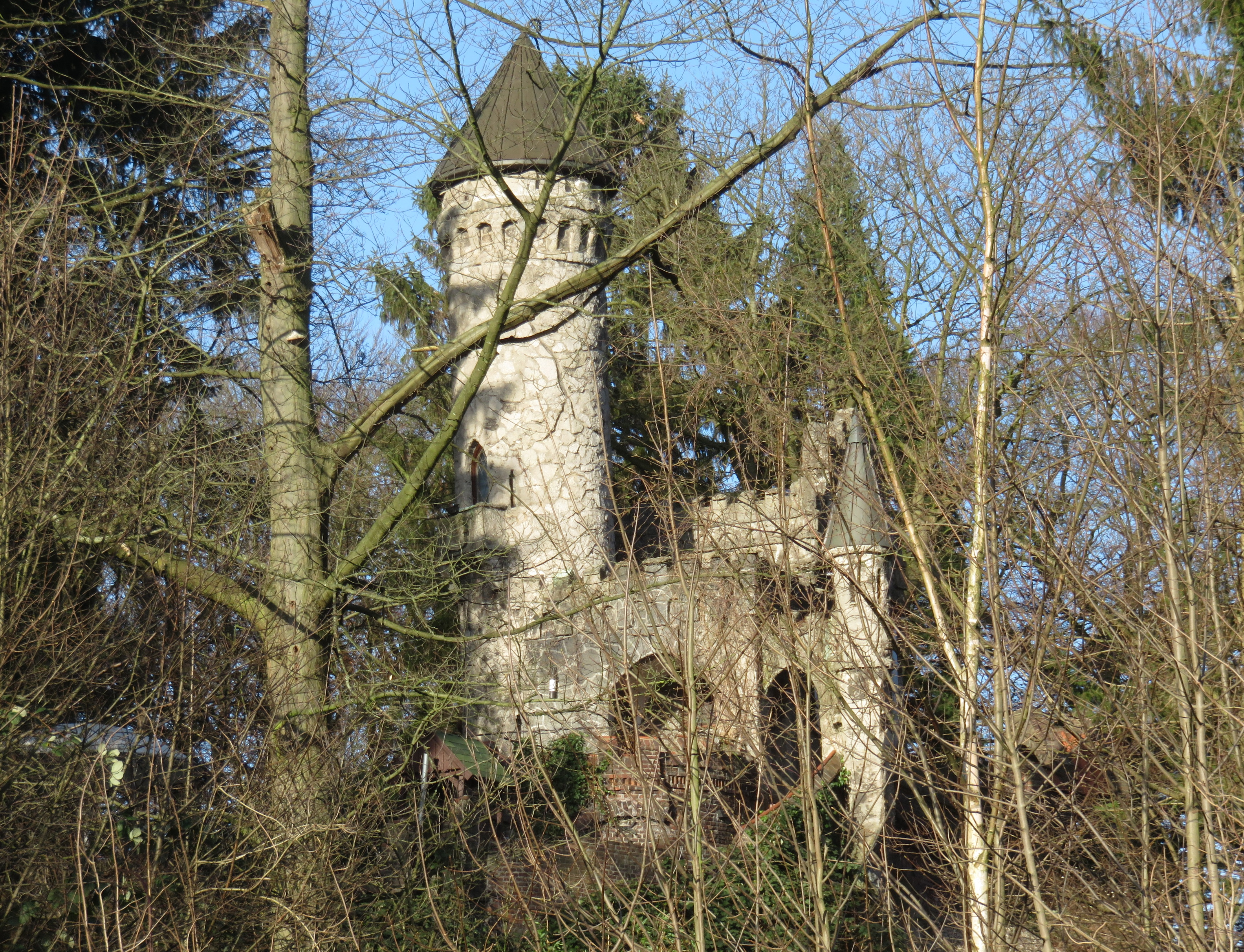 Castle Henneberg (replika) in Hamburg Poppenbüttel